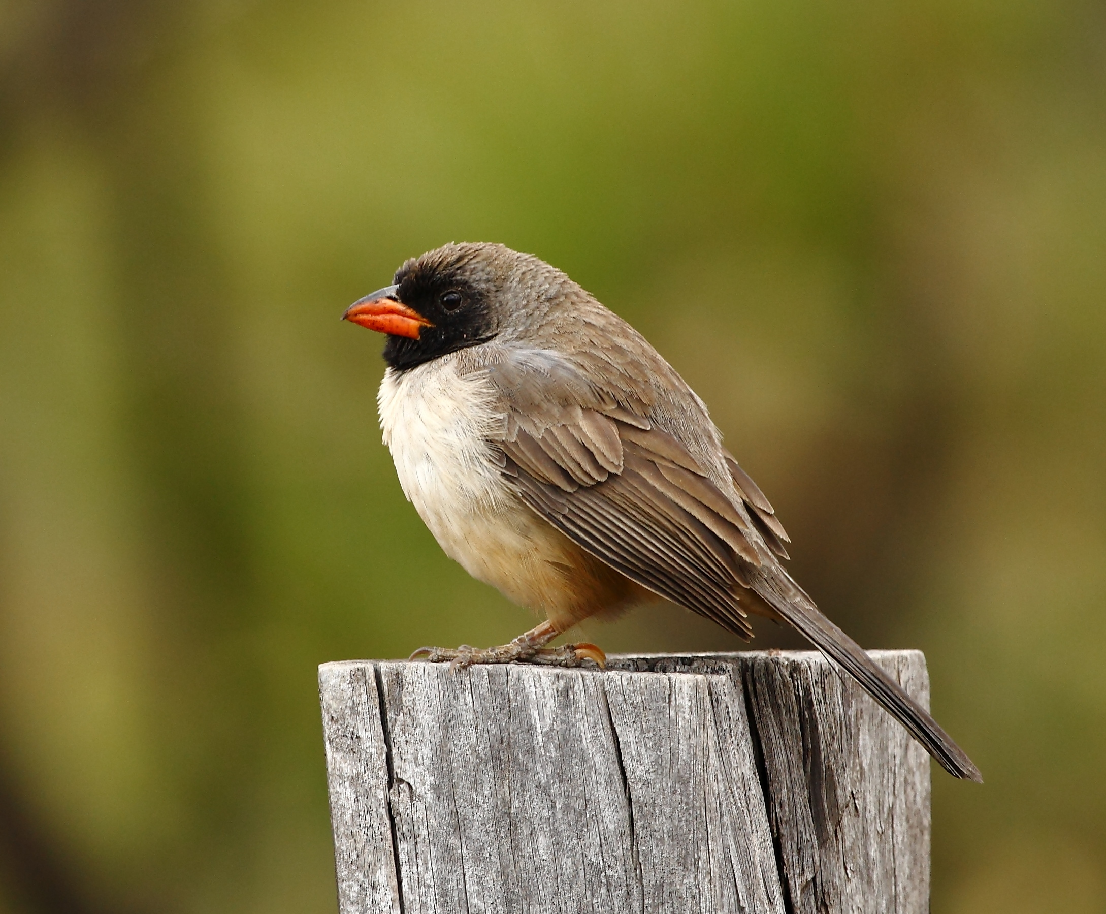 Black-throated saltator at Serra da Canastra National Park, MG, Brazil